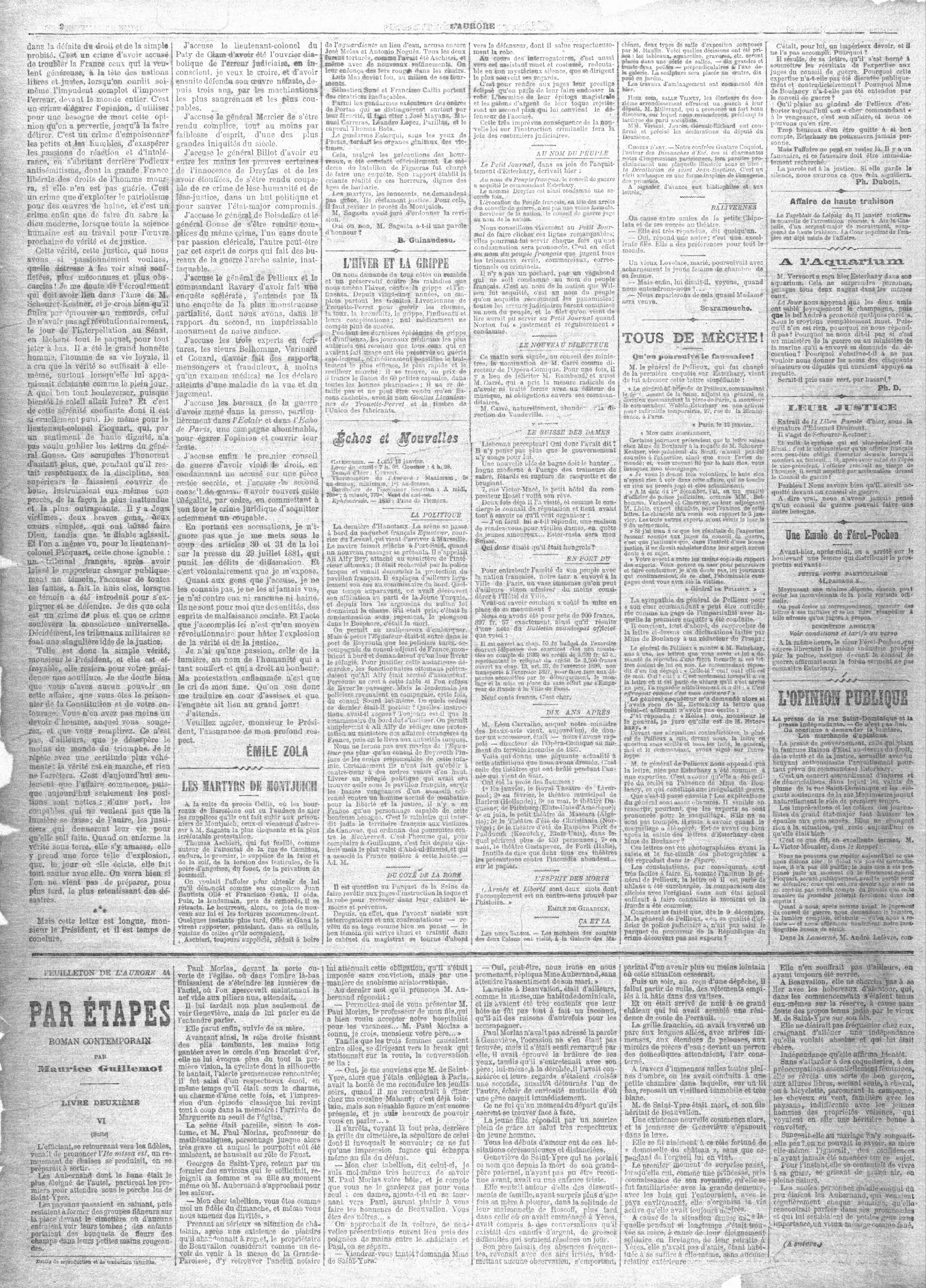 Second page of the newspaper L’Aurore of Thursday 13 January 1898, with J’accuse...!, the open letter written by Émile Zola to president Félix Faure about the Dreyfus affair. The headline reads "I accuse...! Letter to the President of the Republic".